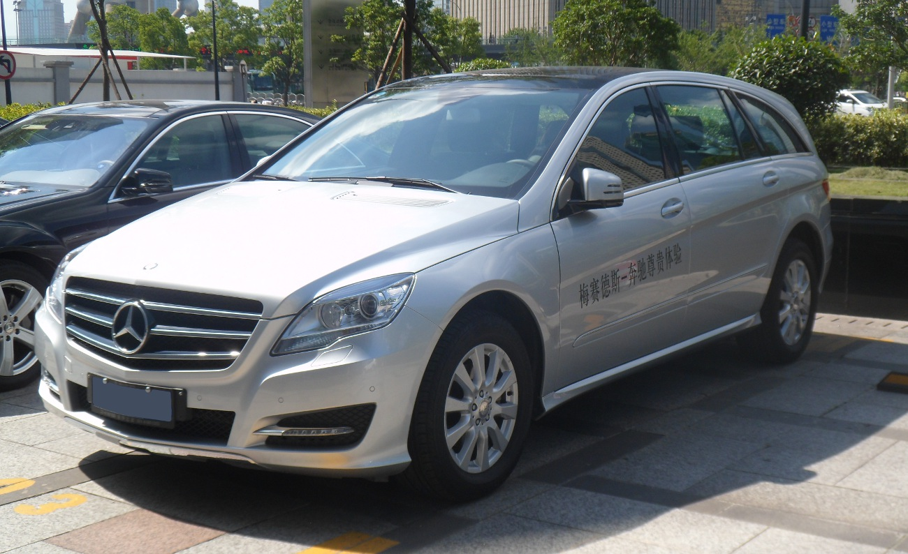 Mercedes-Benz R-Class V251 facelift II photographed in Shanghai, China.